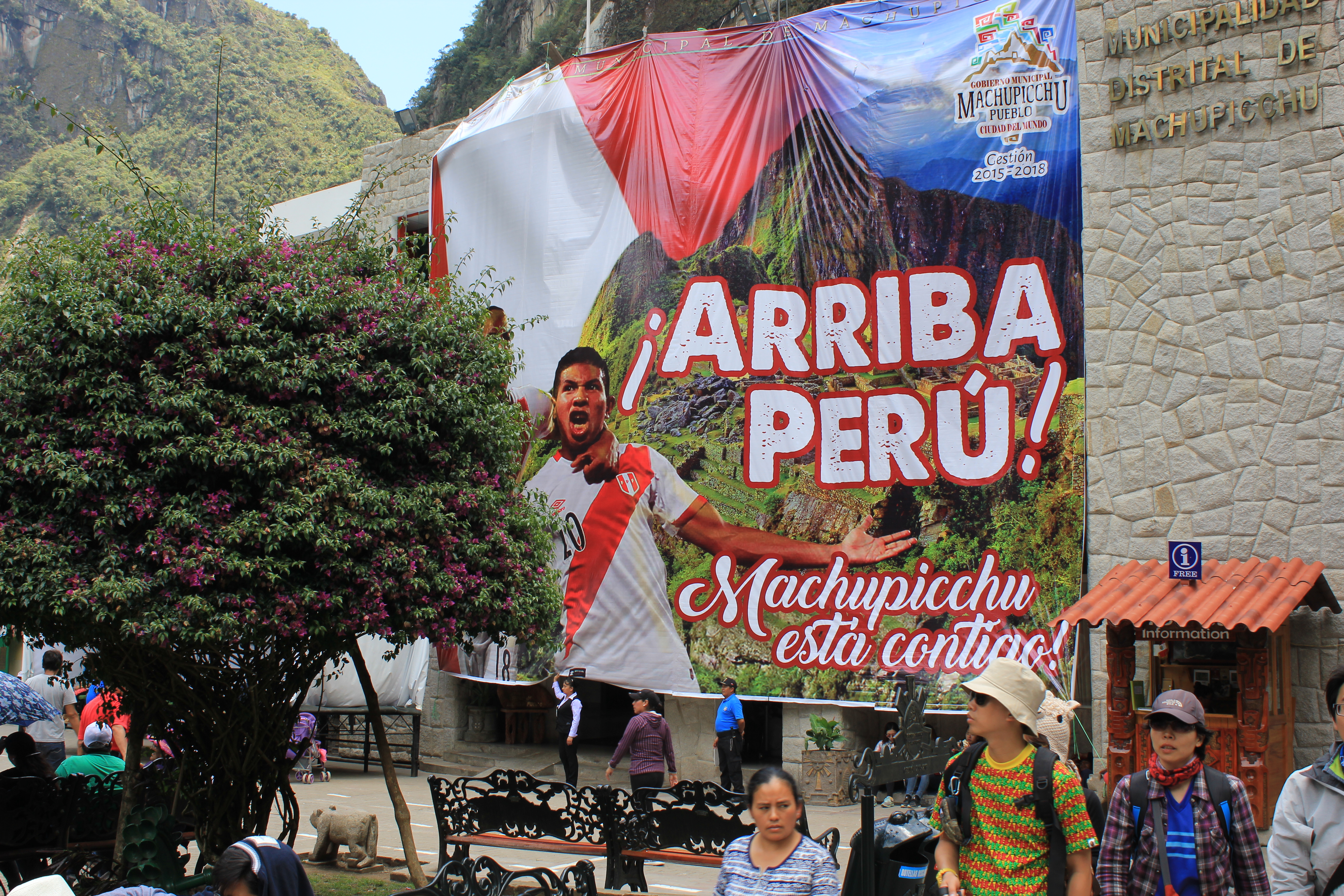 Machu Picchu (Spanish pronunciation: [ˈmatʃu ˈpitʃu]) (Quechua: Machu Picchu;[ˈmɑtʃu ˈpixtʃu]) is a 15th-century Inca citadel situated on a mountain ridge 2,430 meters (7,970 ft) above sea level.It is located in the Cusco Region, Urubamba Province, Machu Picchu District in Peru, above the Sacred Valley, which is 80 kilometers (50 mi) northwest of Cuzco and through which the Urubamba River flows). Village under Machu Picchu is called Machu Picchu Pueblo or Aguas Calientes